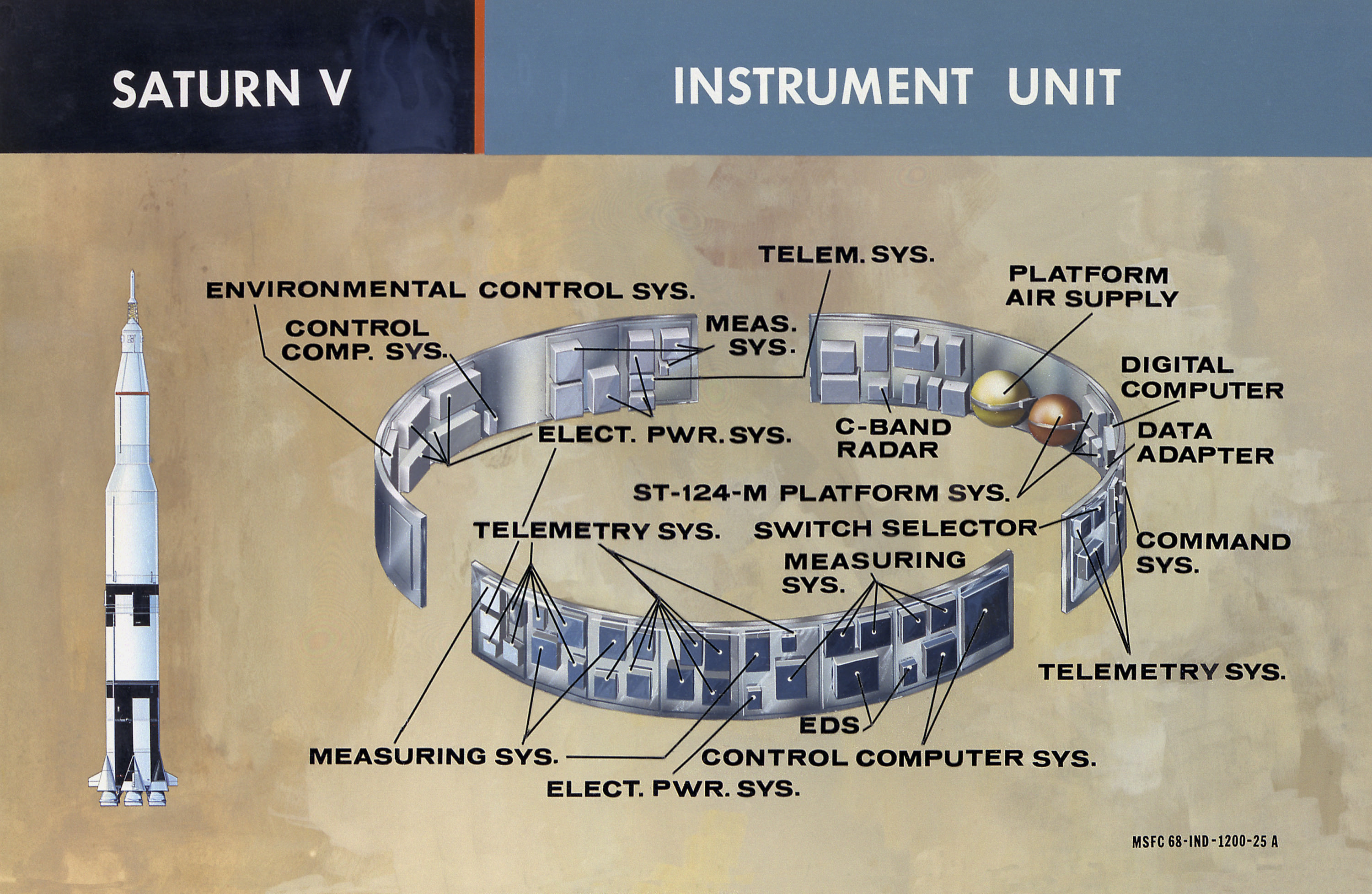 This illustration shows the major components of the instrument unit (IU). Developed and manufactured by International Business Machines, the IU is 3 feet high and 21 feet in diameter and mounted atop an S-IVB, between the third stage and the Apollo spacecraft. It contained the computers, all guidance, control, and sequencing equipment to keep the the launch vehicle properly functioning and on its course. The IU was essentially the same in both the Saturn IB and the Saturn V.